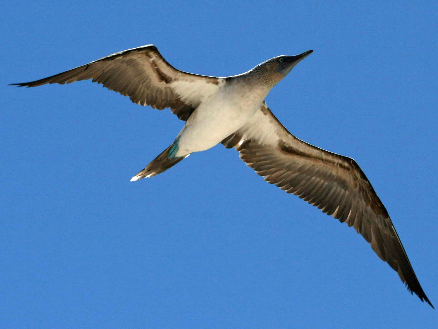 Blue-footed Booby (Sula nebouxii) - Galapagos Islands, Ecuador